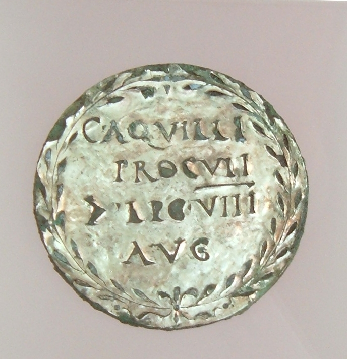 Medallion signifying the possession(s) of Gaius Aquillus Proculus, Centurion of the Leg VIII Augusta. This has been connected to a passage in Tacitus' Historiae by Prof. Bogaers, 8 mei 1995 during a lecture for Numega. The silver plated bronze medallion was found in the fire-layer attributed to the Batavian Revolt of 69-70 A.D. Nimega (Holanda). AE 1998, 966 = AE 2000, 1011, EDH:HD049059 C(aii) AQVILLI PROCVLI/ C(enturionis) LEG(ionis) VIII/ AUG(ustae) Museum Het Valkhof Nijmegen, the Netherlands. Museum Het Valkhof Native nameMuseum Het ValkhofLocationNijmegen Address Kelfkensbos 596511 TB NijmegenNetherlandsCoordinates51° 50′ 47″ N, 5° 52′ 16″ E Established1999Web page control : Q1127079 VIAF: 158715438 ISNI: 0000 0004 0533 6734 LCCN: no2002025807 GND: 5519052-2 SUDOC: 075891700 WorldCat institution QS:P195,Q1127079